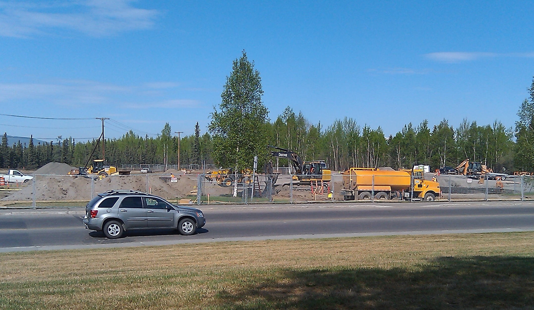 The early stages of construction of the Chief Andrew Issac Health Center in Fairbanks, Alaska. The center, operated by Tanana Chiefs Conference, is currently located within a wing of the hospital building itself.